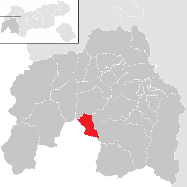 District Landeck